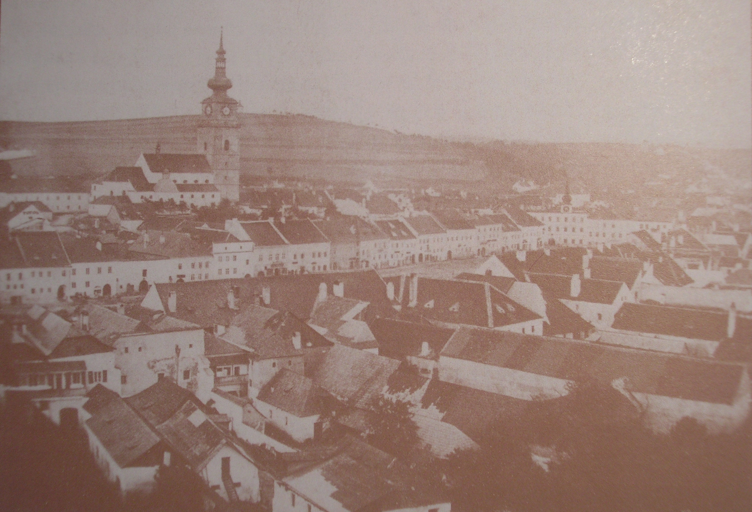 The oldest photo of Třebíč, made before year 1868.